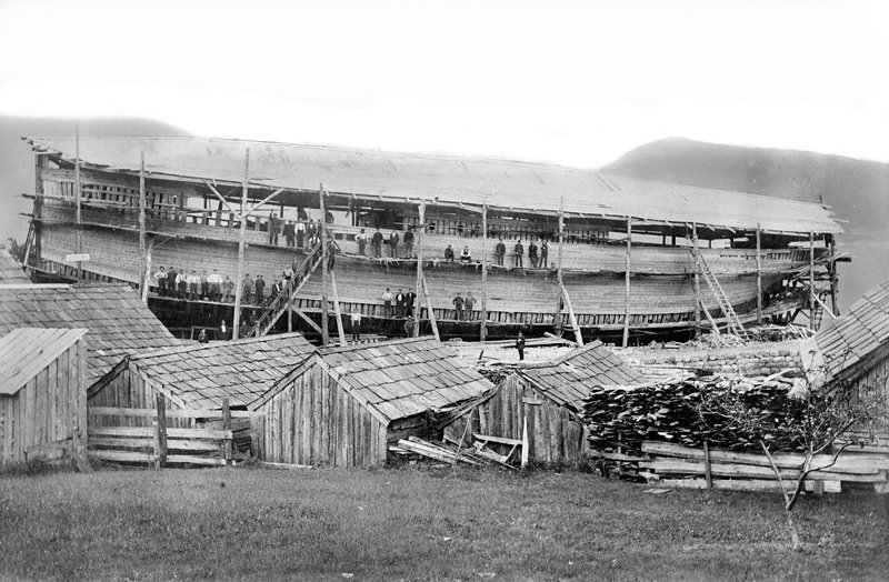 Skaalurens Skibsbyggeri, Rosendal, Kvinnherad, Norway. 1901. Ship being built is Expedit. 680 T.B.R.